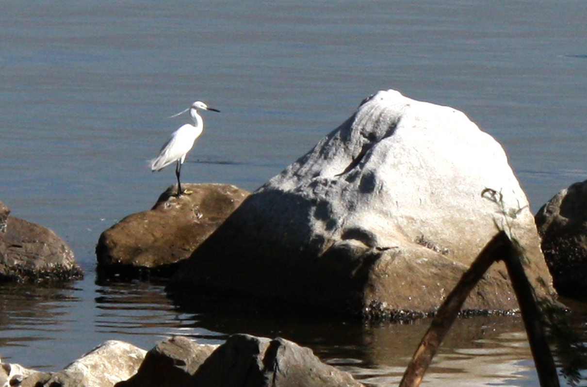 An egret rests on a rock at the Las Piñas-Parañaque Critical Habitat and Ecotourism Area (LPPCHEA)